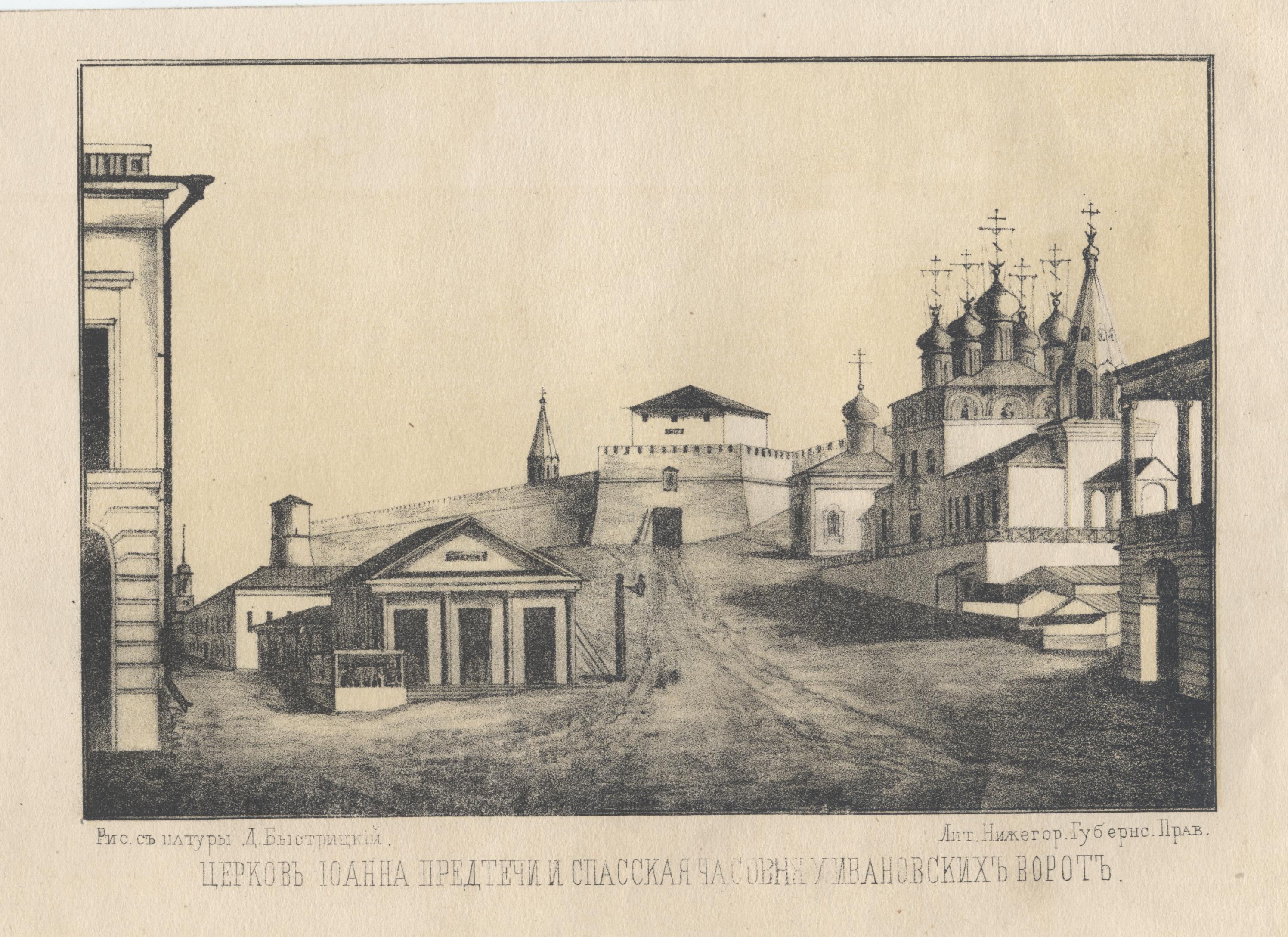 Nizhny Novgorod. Kreml. Church of St. John the Baptist